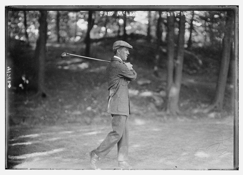 Bain News Service,, publisher. Fred McLeod - golf [between ca. 1910 and ca. 1915] 1 negative : glass ; 5 x 7 in. or smaller. Notes: Title from unverified data provided by the Bain News Service on the negatives or caption cards. Forms part of: George Grantham Bain Collection (Library of Congress). Format: Glass negatives. Repository: Library of Congress, Prints and Photographs Division, Washington, D.C. 20540 USA, General information about the Bain Collection is available at Persistent URL: Call Number: LC-B2- 2817-14